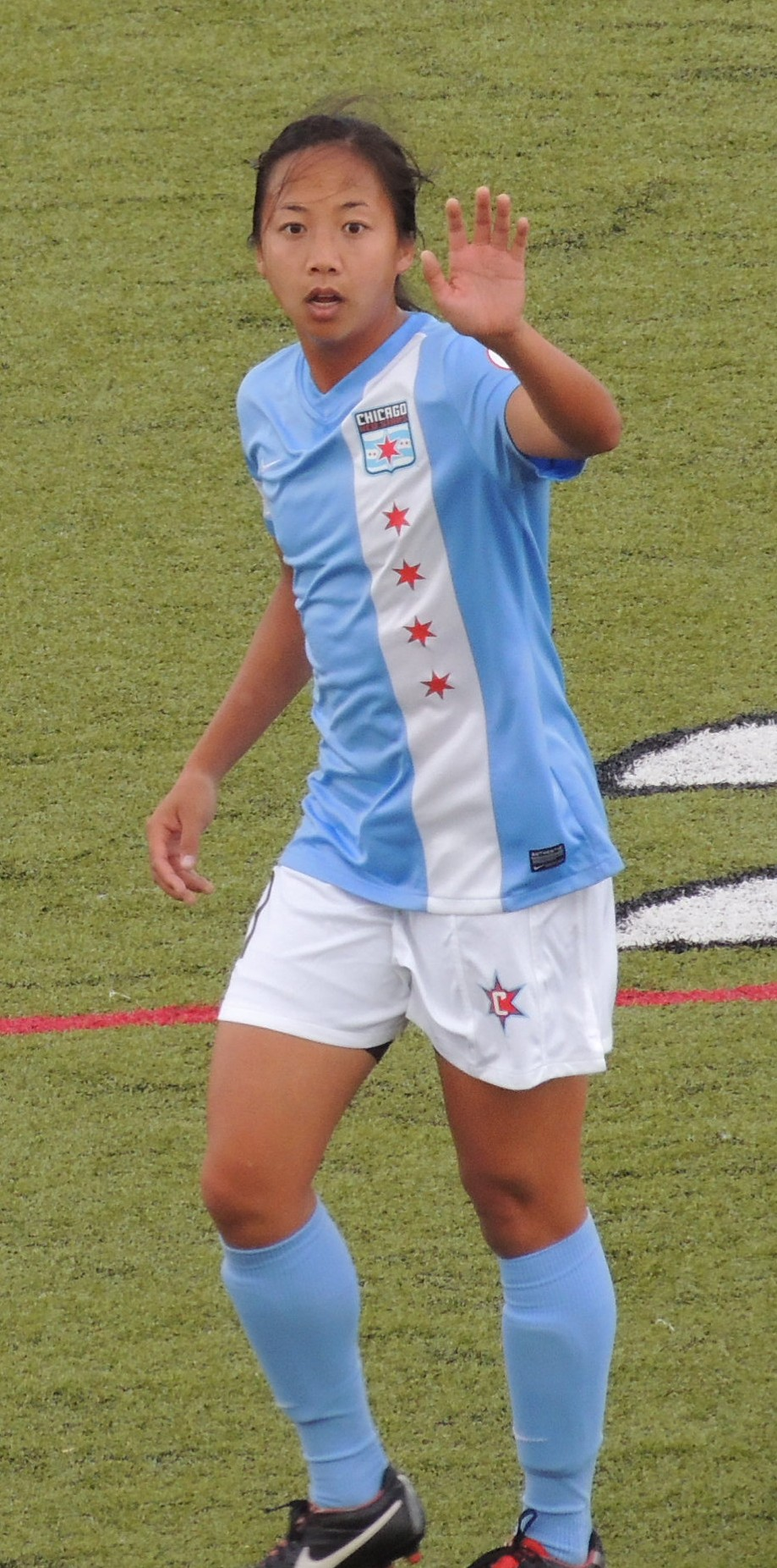 Rachel Quon, soccer player; 2013-06-09 Chicago Red Stars vs Boston Breakers